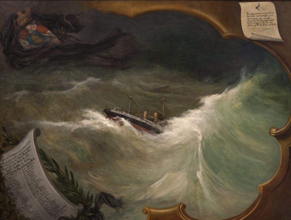 The sinking of the Spanish protected cruiser Reina Regente during a storm on March 10, 1895, in an oil painting by Manuel Ussel de Guimbarda. In the work the naval ship appears as a central figure, being rammed by the waves, with the coat of arms of Cartagena covered by a mourning veil in the upper left margin as a sign of the pain of the city due to a shipwreck in which a large number of the 420 deceased were neighbors of.